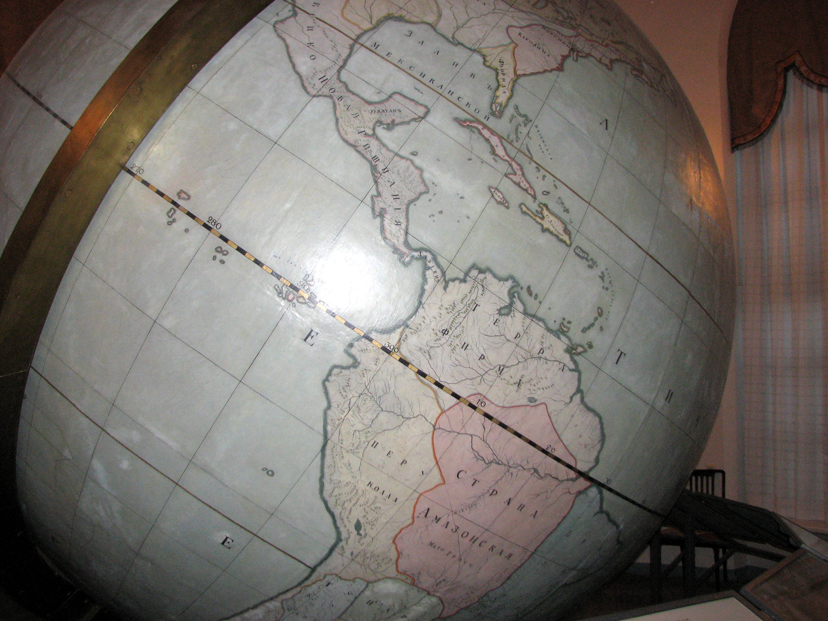 Saint Petersburg. The Kunstkamera. Globe of Gottorf